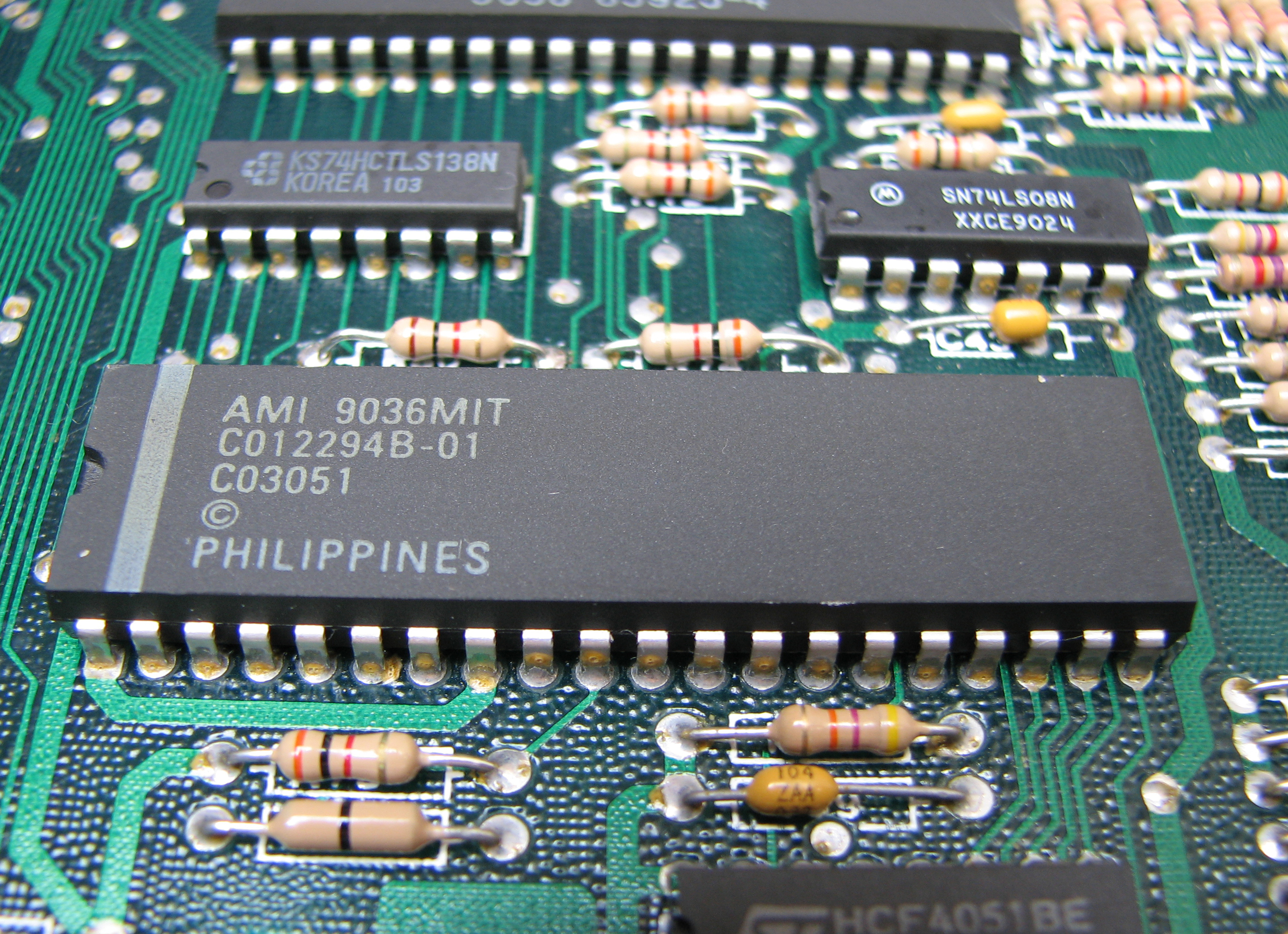 POKEY chip manufactured by AMI at the center of the image.